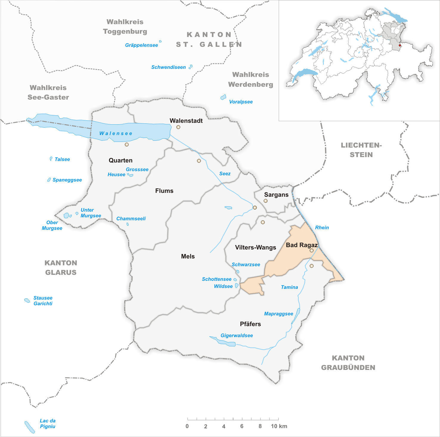 Municipality Bad Ragaz